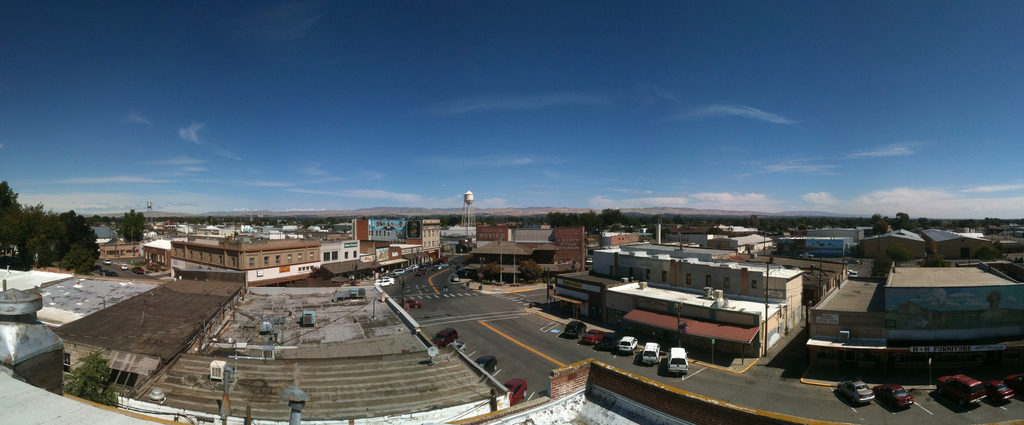 Panorama of the city of Toppenish, WA facing north.